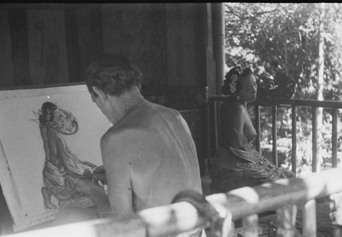 The Belgian painter Le Majeur with his model Ni Pollock, Bali.